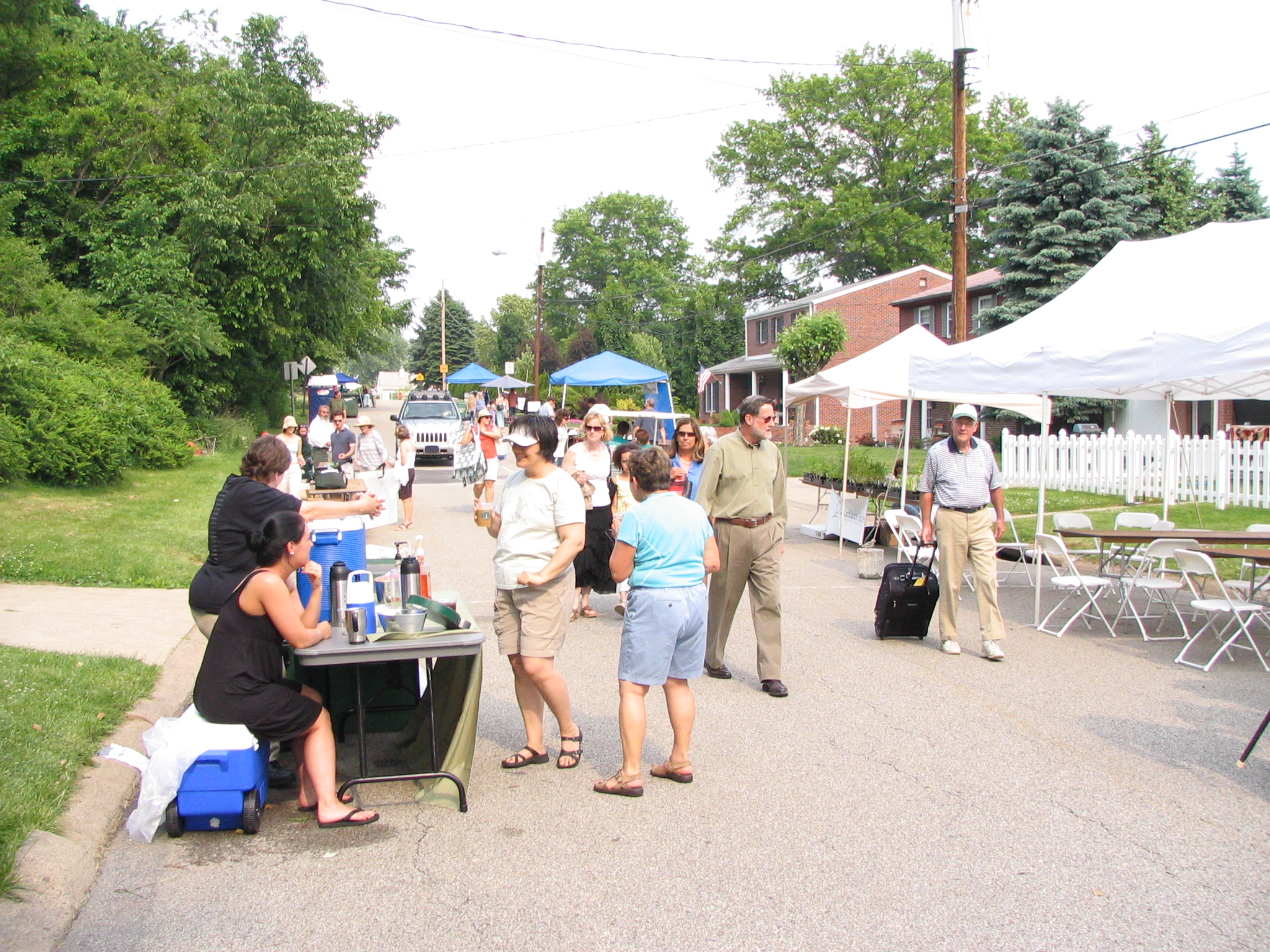 Photo taken at Rachel Carson's 100th Birthday celebration at Rachel Carson Homestead in Springdale, PA